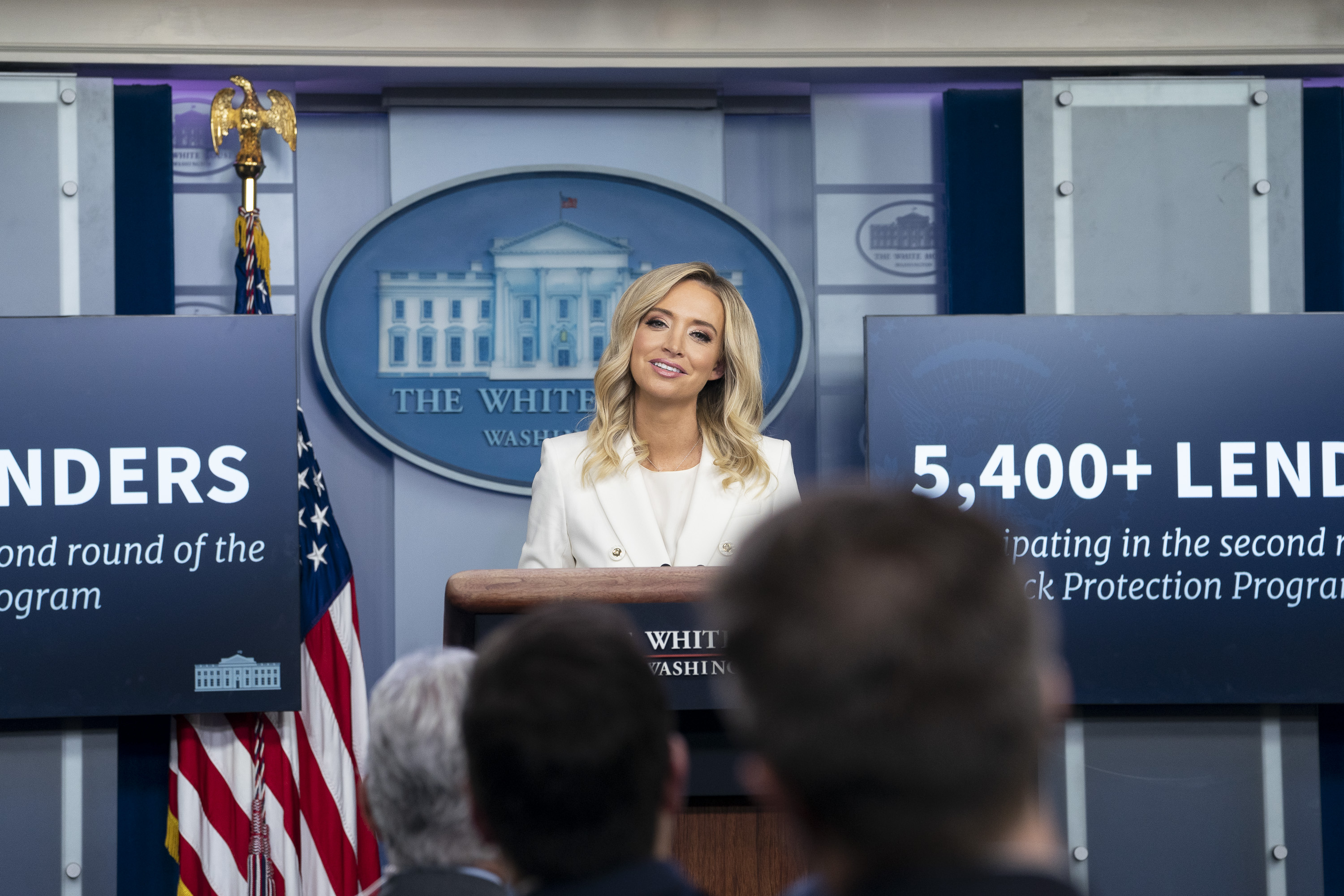 White House Press Secretary Kayleigh McEnany listens to a reporter’s question at a White House press briefing Wednesday, May 6, 2020, in the James S. Brady Press Briefing Room of the White House. (Official White House Photo by Joyce N. Boghosian)